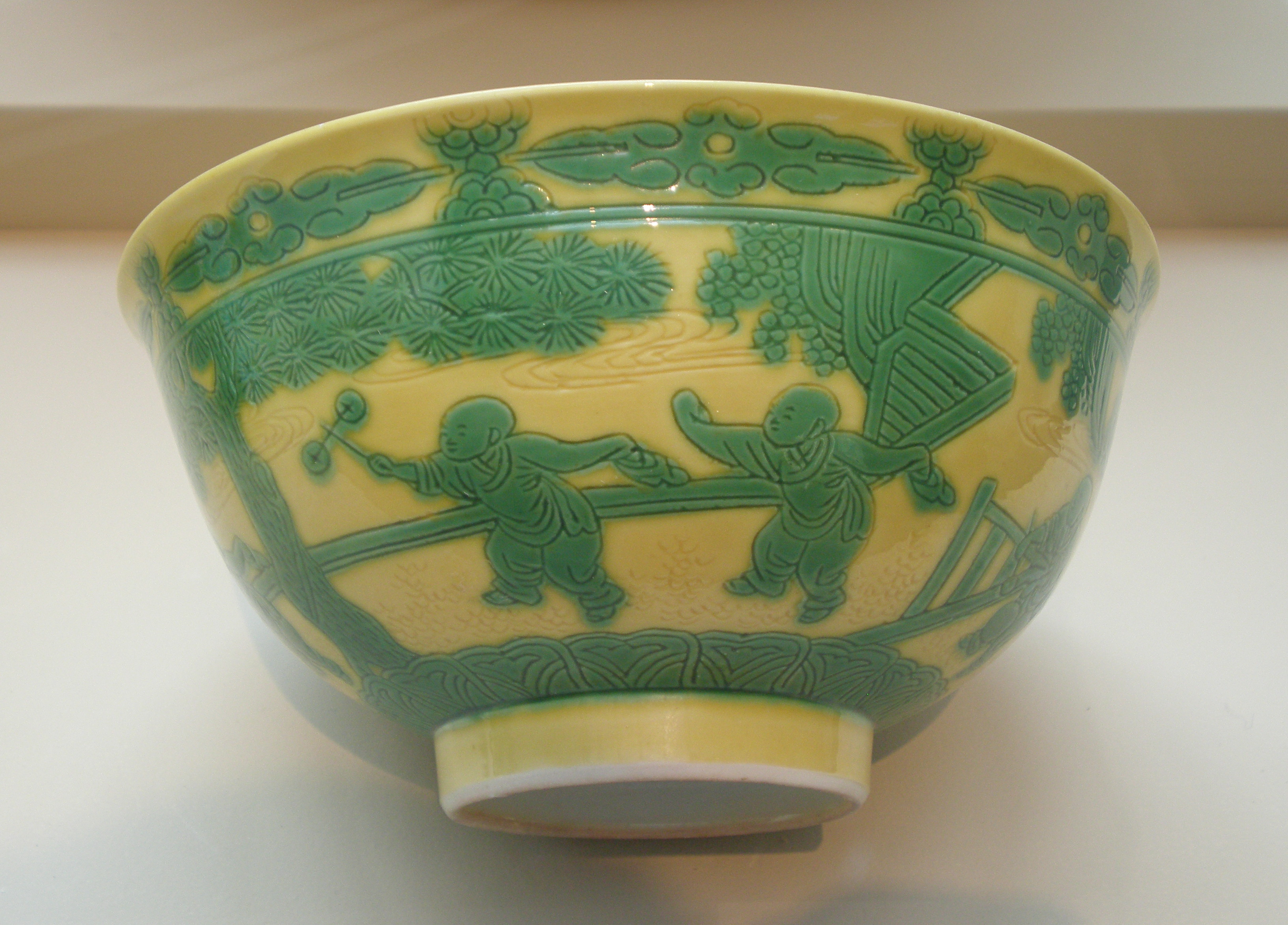 Bowl with boys playing in a courtyard, Qing Dynasty (1723-1735) on display at the Asian Art Museum in San Francisco, California. B60P1445